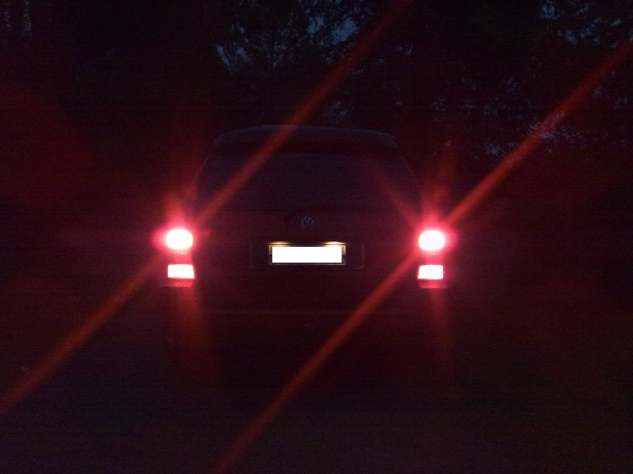 Brake lights of my car, Volkswagen Golf III Variant.